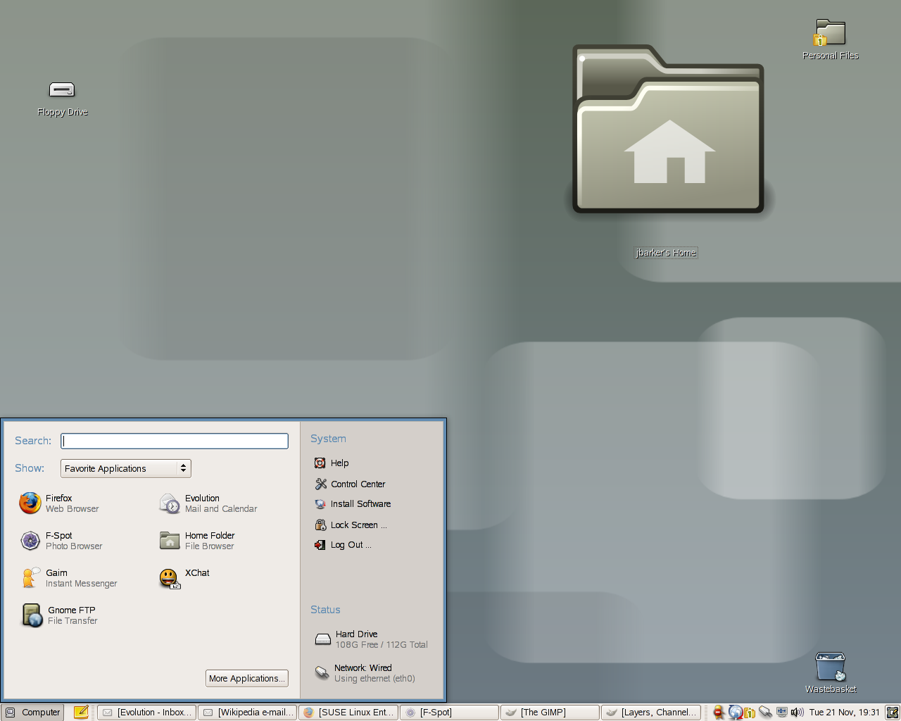 A SLED 10.1 Based setup, showing the Novell gnome-slab menu. This image was created by Jbarker uk 21:21, 21 November 2006 (UTC)